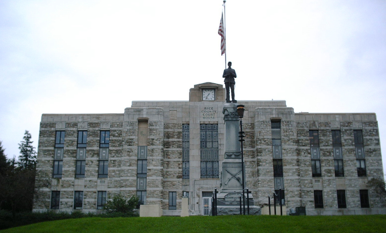 Photo I took in early September 2006 of the Rice County Courthouse in Faribault, Minnesota. CC & GFDL.